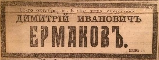 D. I. Ermakov - Necrolog